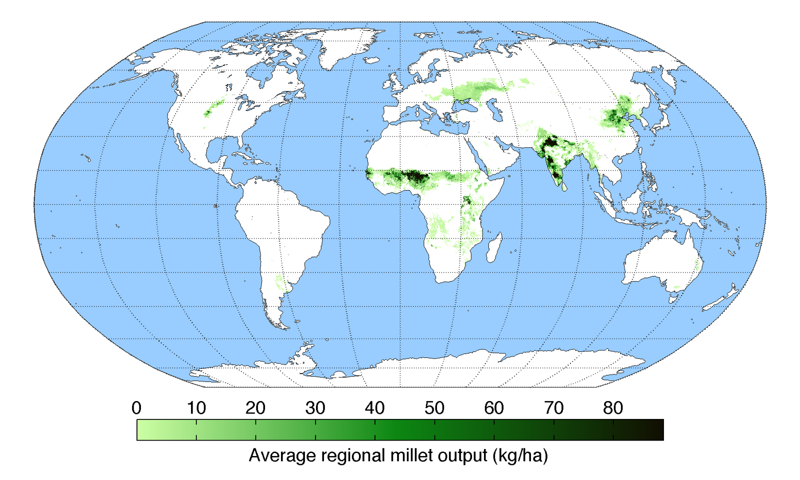 Map of millet production (average percentage of land used for its production times average yield in each grid cell) across the world compiled by the University of Minnesota Institute on the Environment with data from: Monfreda, C., N. Ramankutty, and J.A. Foley. 2008. Farming the planet: 2. Geographic distribution of crop areas, yields, physiological types, and net primary production in the year 2000. Global Biogeochemical Cycles 22: GB1022